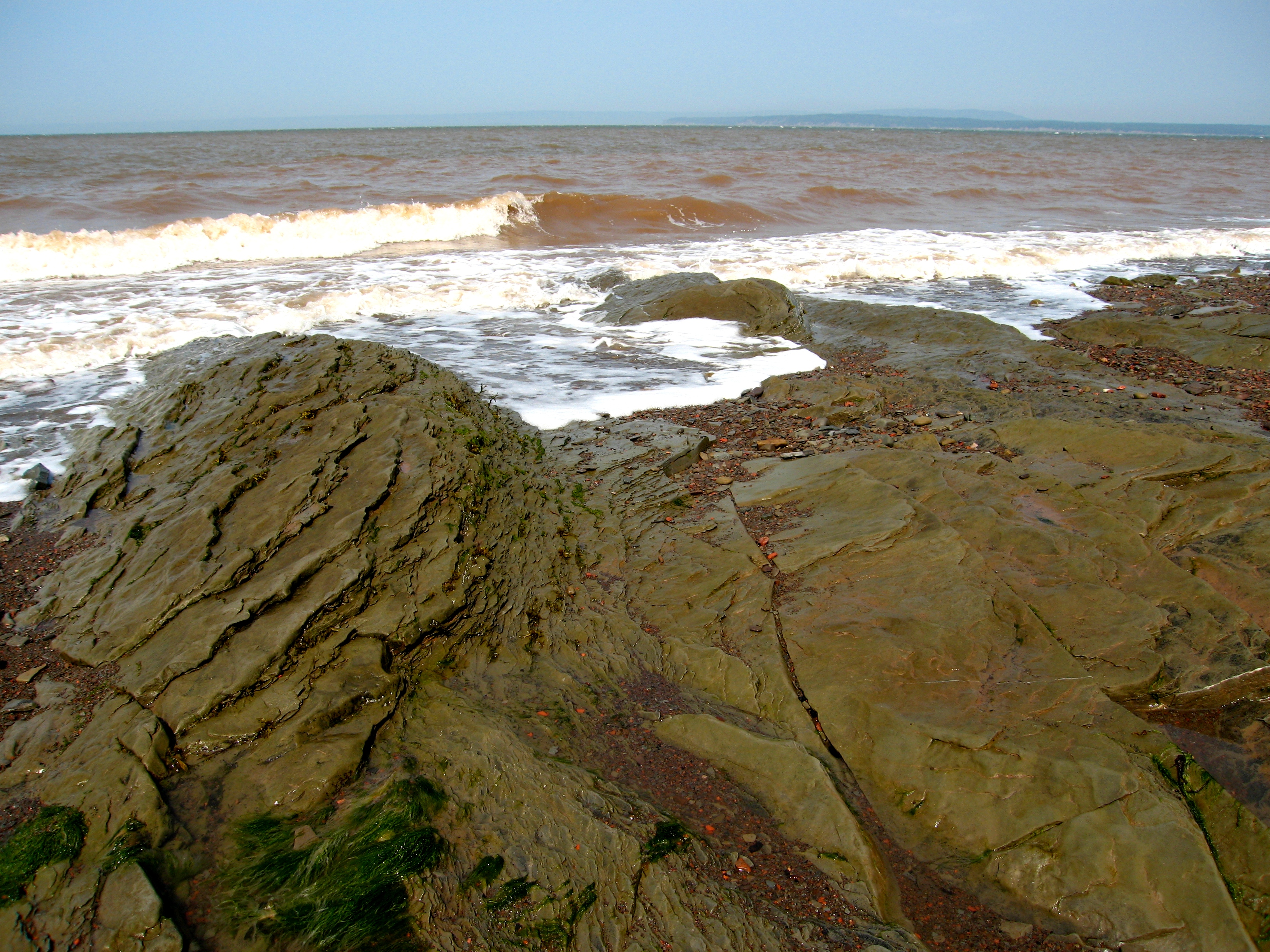 Photograph of Chignecto Bay with the Cape Maringouin peninsula (New Brunswick)in the distance, as viewed from Joggins Fossil Cliffs on the Bay of Fundyen at Joggins, Nova Scotiaen. At the Cape, Chignecto Bay spits into the Shepody Bay running north (far side), and the Cumberland Basin, which is body of water in the foreground.